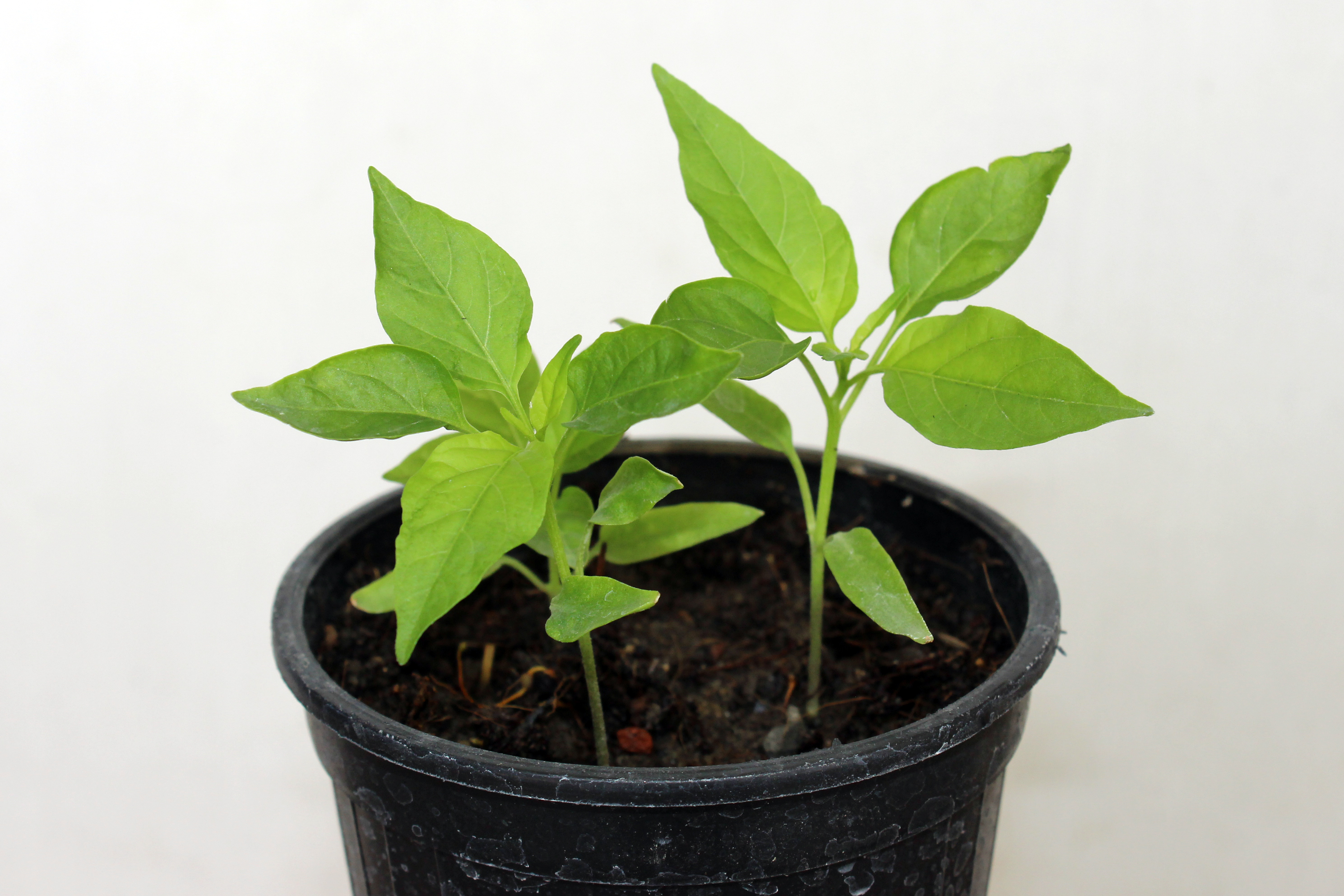 Carolina Reaper 30 days old Plant